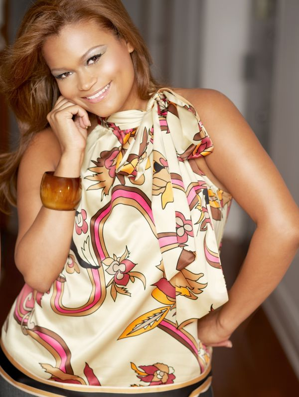 Picture of Christina Mendez